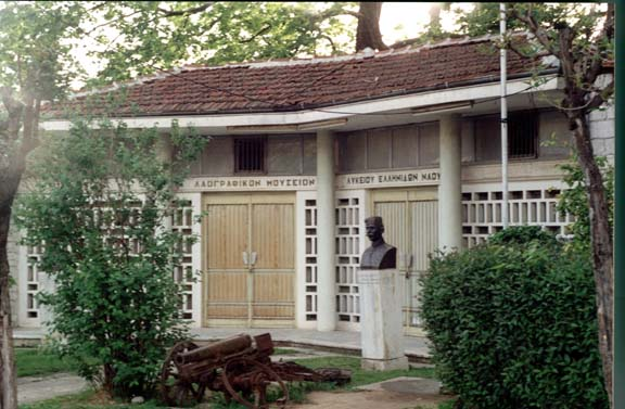 Outside View, image from the Folklore Museum of the Lyceum of Hellenic Women, Naoussa, Central Macedonia, Greece